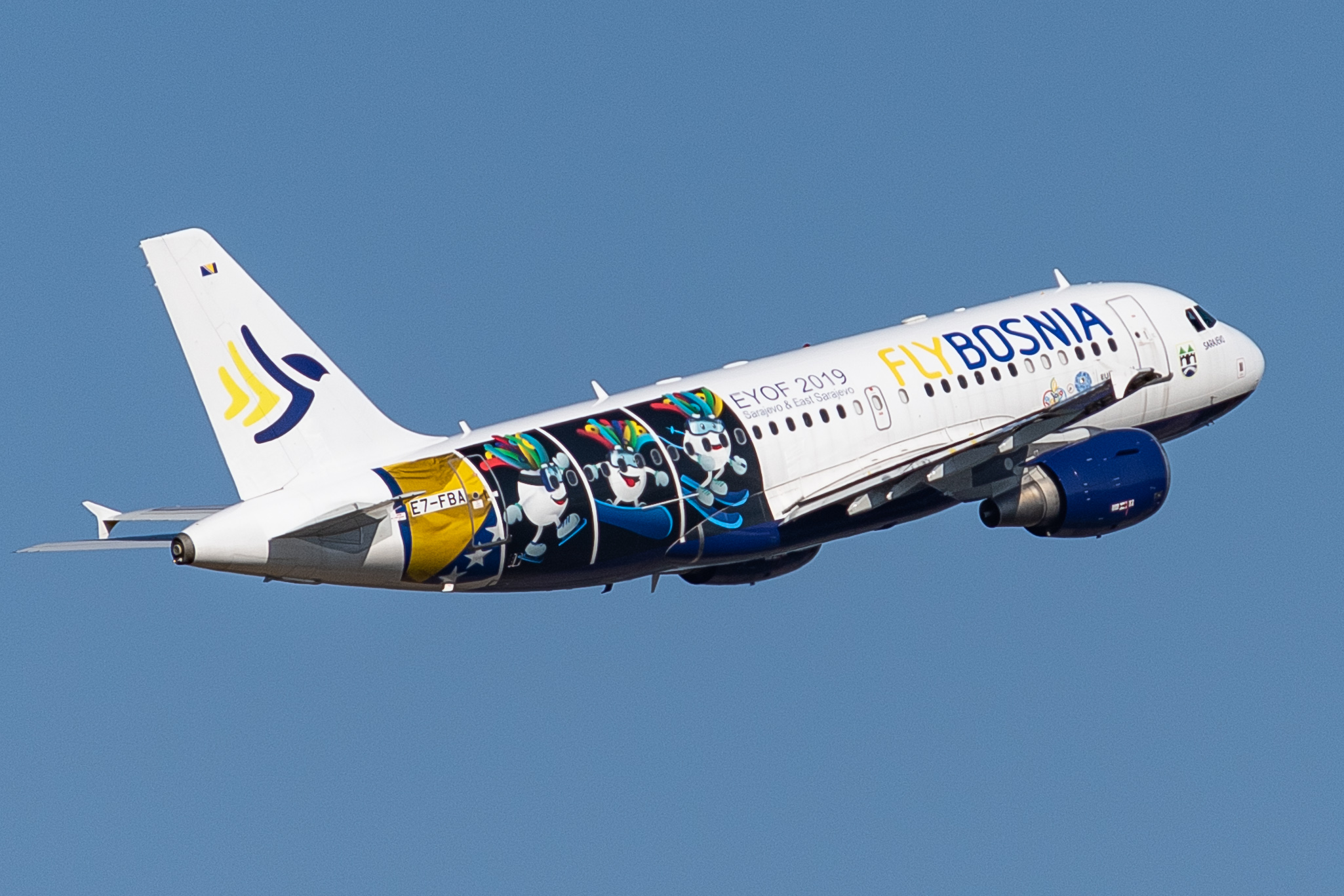 FBS1816 taking off from 36L, heading for Karaganda, then to Podgorica and Sarajevo.